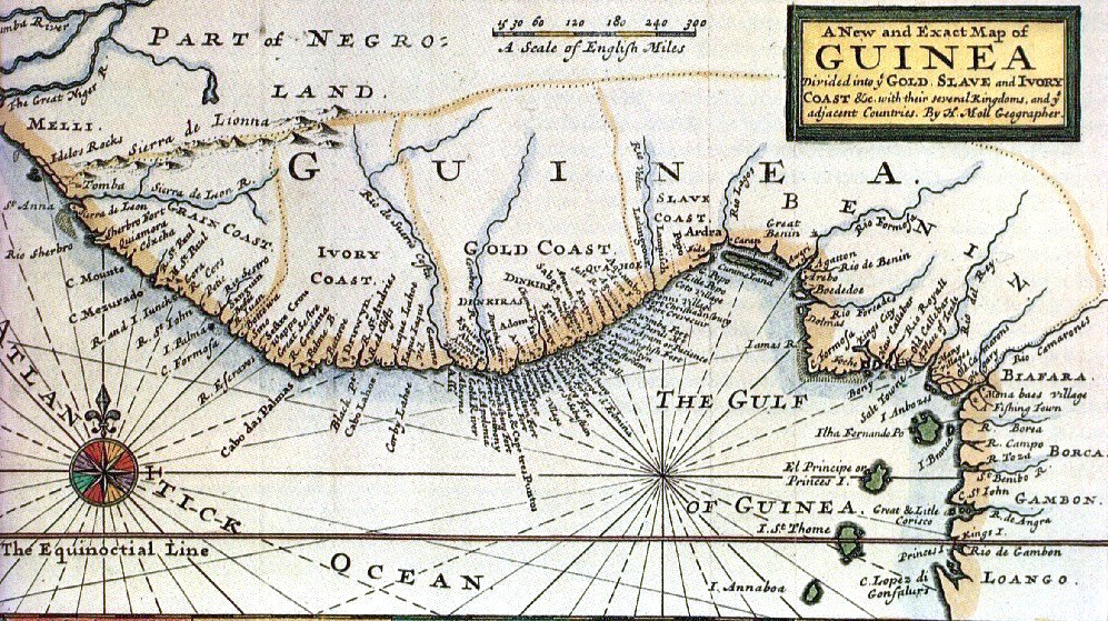 Historic map of the guineas coast c. 1725 by Hermann Moll